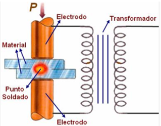 Dibuix amb les parts més importants d'una soldadura per punts bilateral